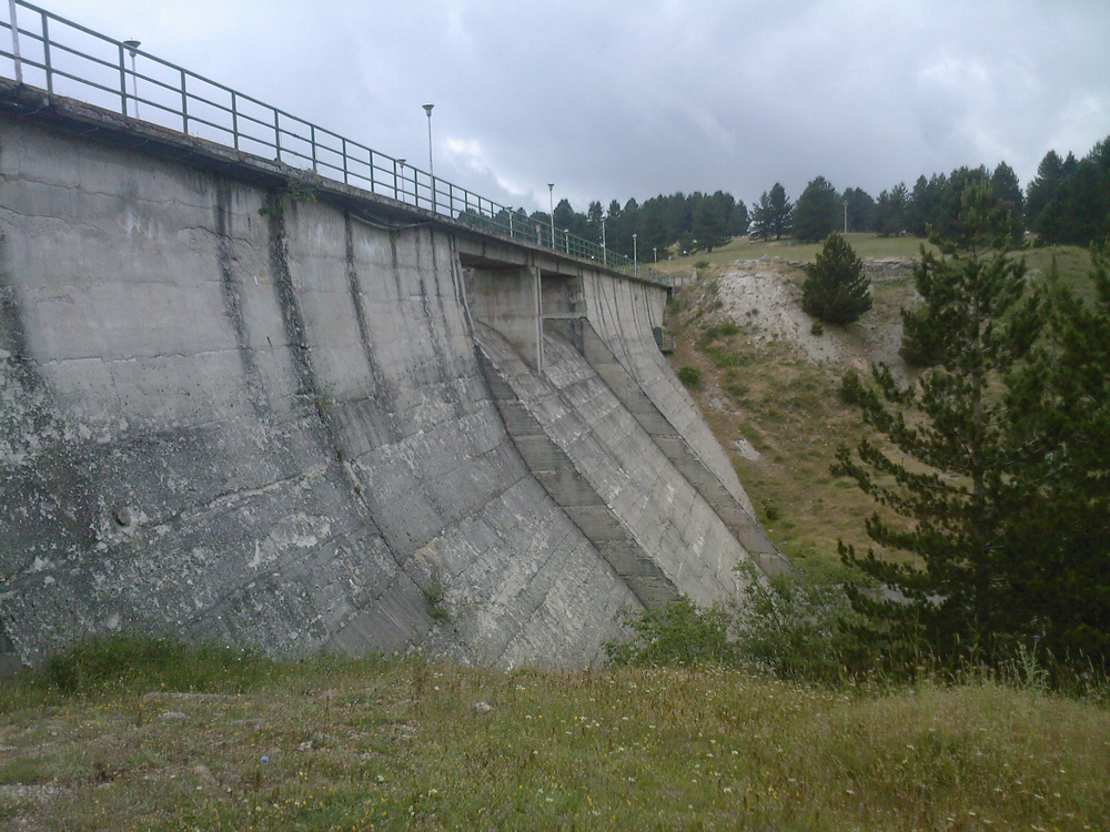 Sila National Park - Lake Votturino, the Dam